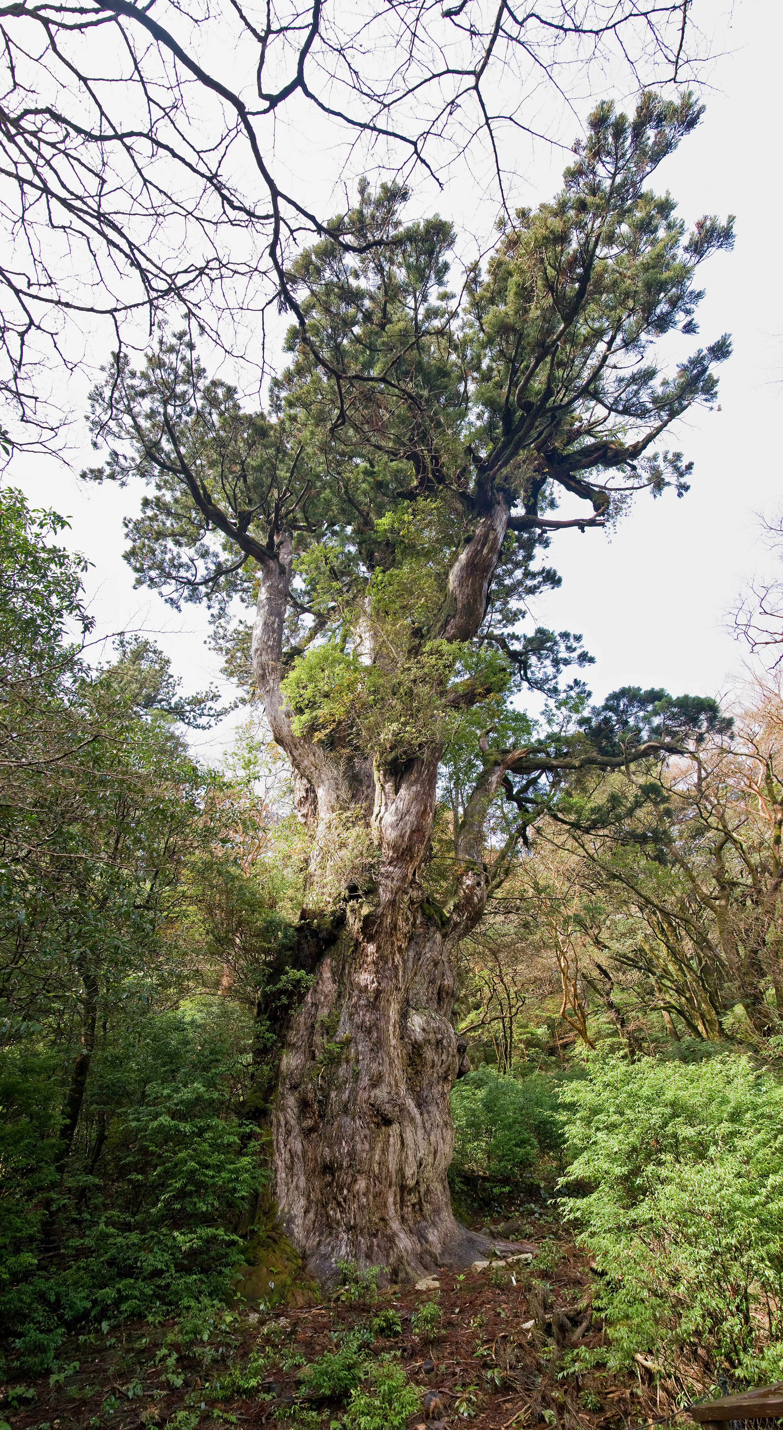 Jōmon Sugi in Yakushima, Kagoshima Pref., Japan.